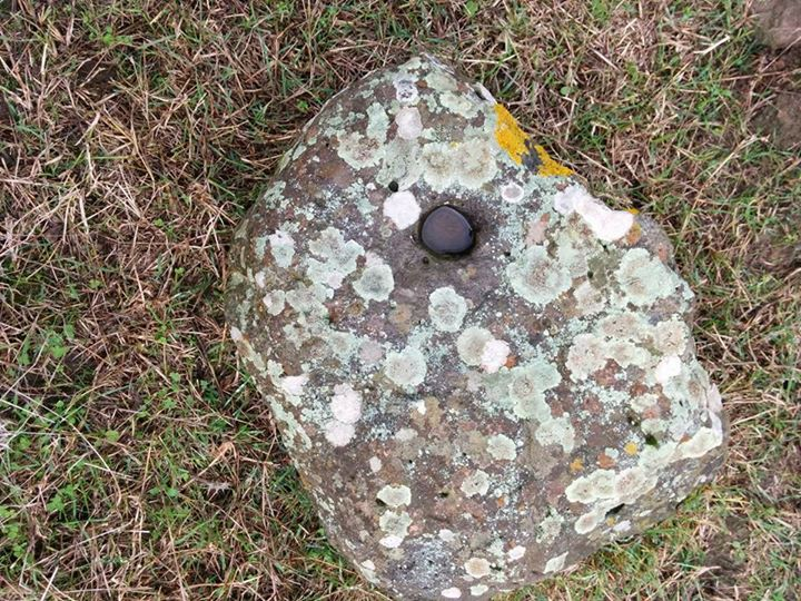 a rest of Nuraghe Surbiu at Pabillonis